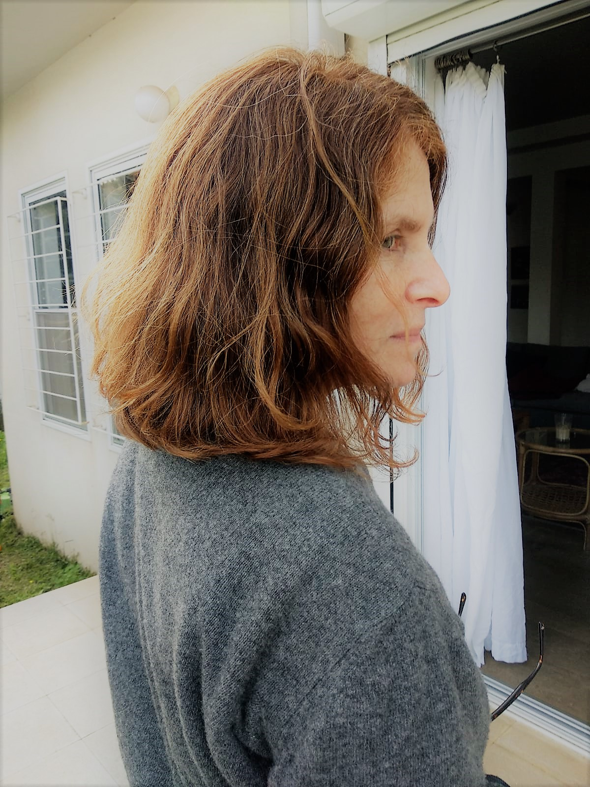 Galia Oz